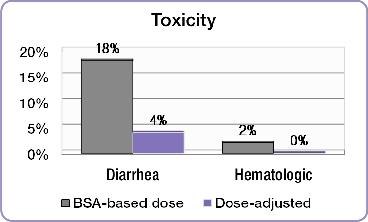 Shows improvement is cancer treatment toxicity rate with PK-guided dosing of 5-FU